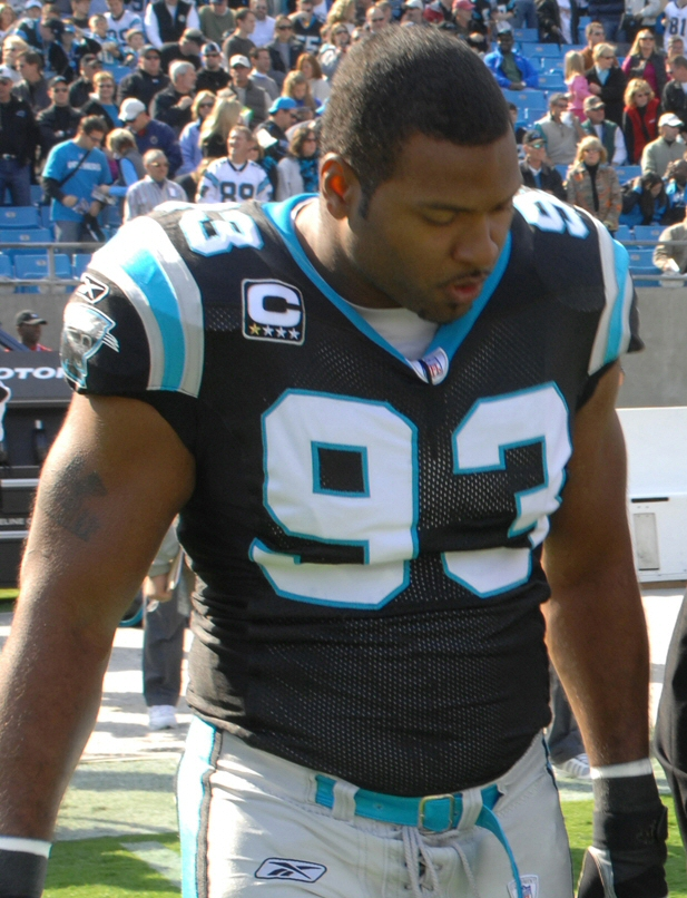 CHARLOTTE, N.C. -- Carolina Panthers defensive end, Michael Rucker, walks to mid-field Nov. 11 with Navy Hospital Corpsman William Cooper and Marine Sgt. Edwin Bono. Bono and Cooper, injured in Iraq, were named honorary team captains in honor of Veterans Day. (U.S. Air Force photo/Staff Sgt. Henry Hoegen)